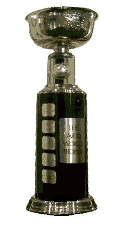 Avco World Trophy